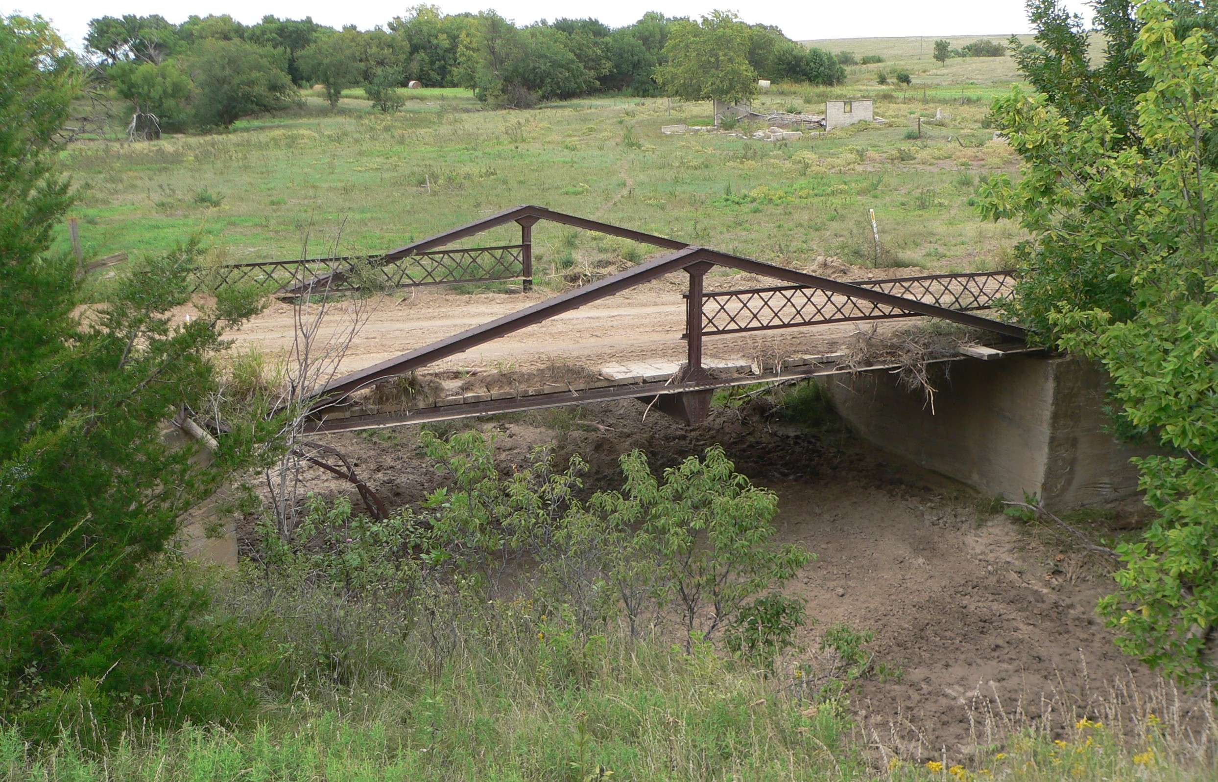 Kingpost truss bridge carrying Eagle Road across Battle Creek between its intersections with West 800 Rd, east of Long Island in rural Phillips County, Kansas. View is from the southwest.